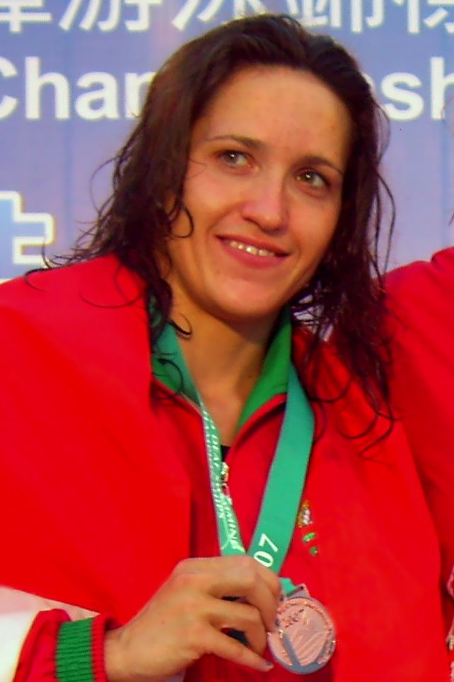 2007 World Deaf Swimming Championships: Natalia Deeva.